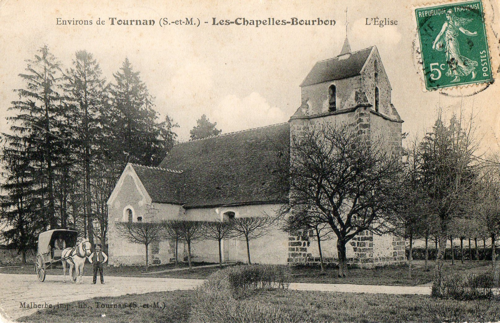 Les Chapelles-Bourbon - Church